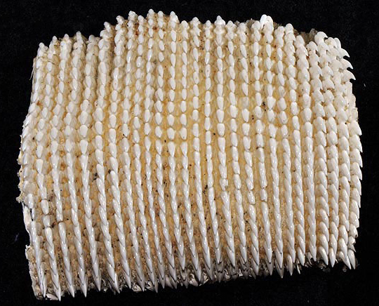 Rhincodon typus